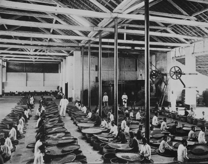 The sorting of coffee by Javanese women at at coffee company's the plant in Soebang